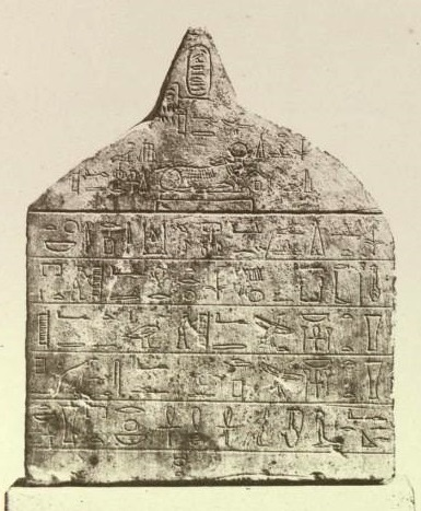 Stele commemorating the death of an Apis bull in year 6 of Bakenranef, found in the Serapeum of Saqqara. Bakenranef's name is visible on the tip of the stele. Reign of Bakenranef, 24th dynasty, Third intermediate period.